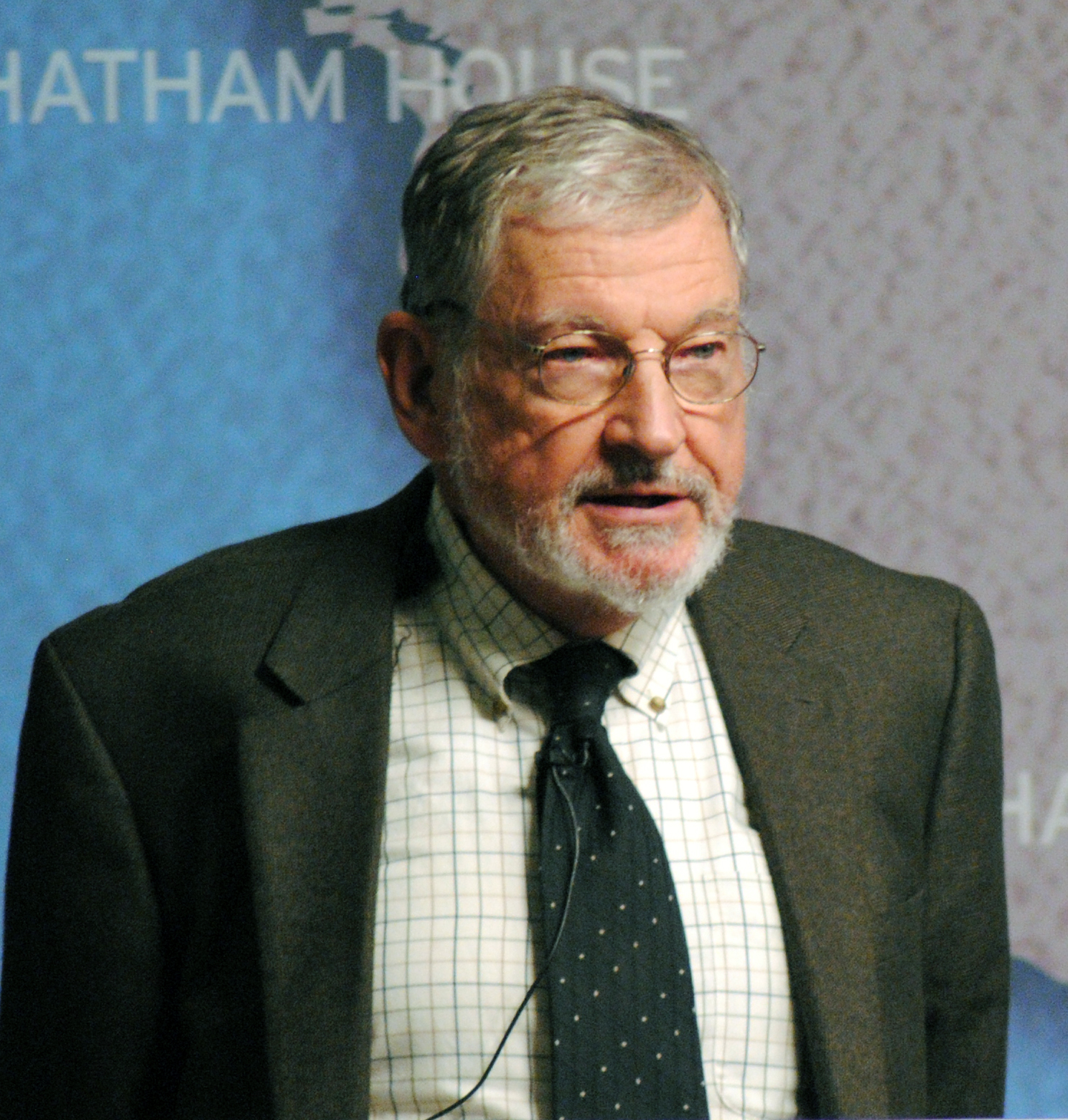 Professor John Mueller, Woody Hayes Chair of National Security, The Ohio State University at the Chatham House event "Counterterrorism: The Right Response?" 6 September 2013 cht.hm/1fEY98P